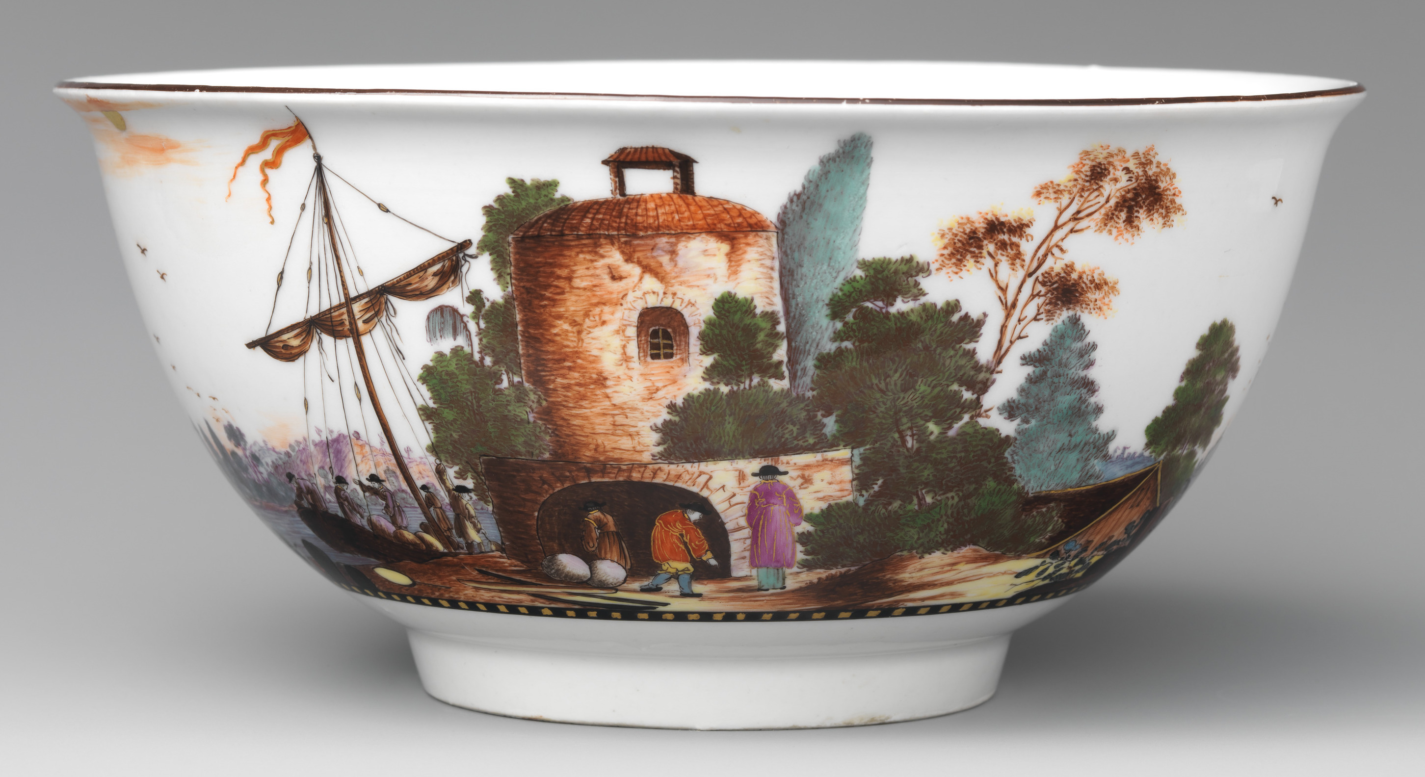 German, Meissen; Bowl; Ceramics-Porcelain